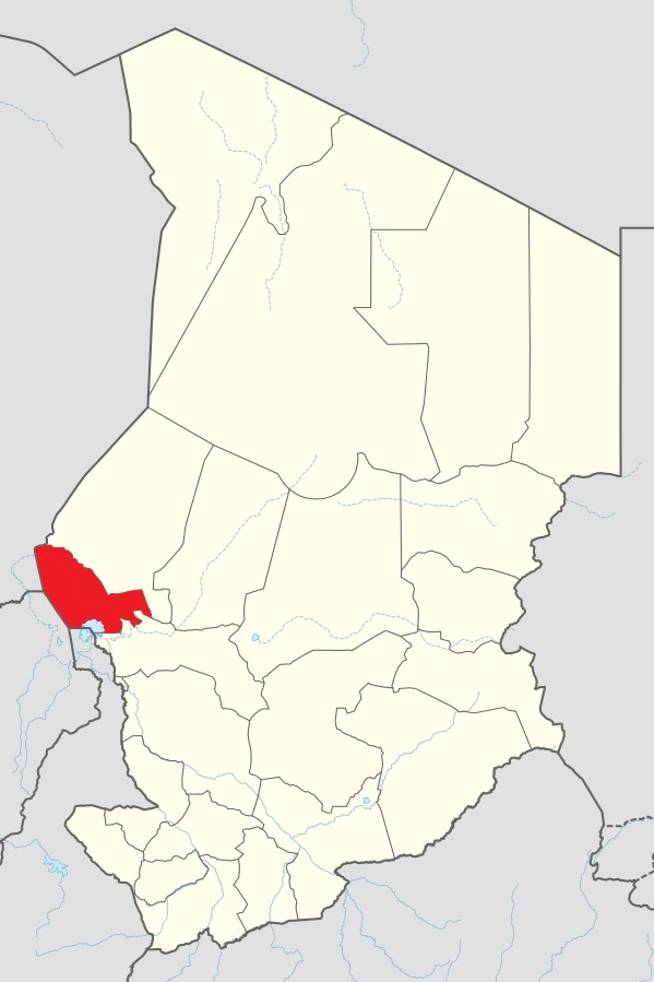 Map of Lac Region in Chad